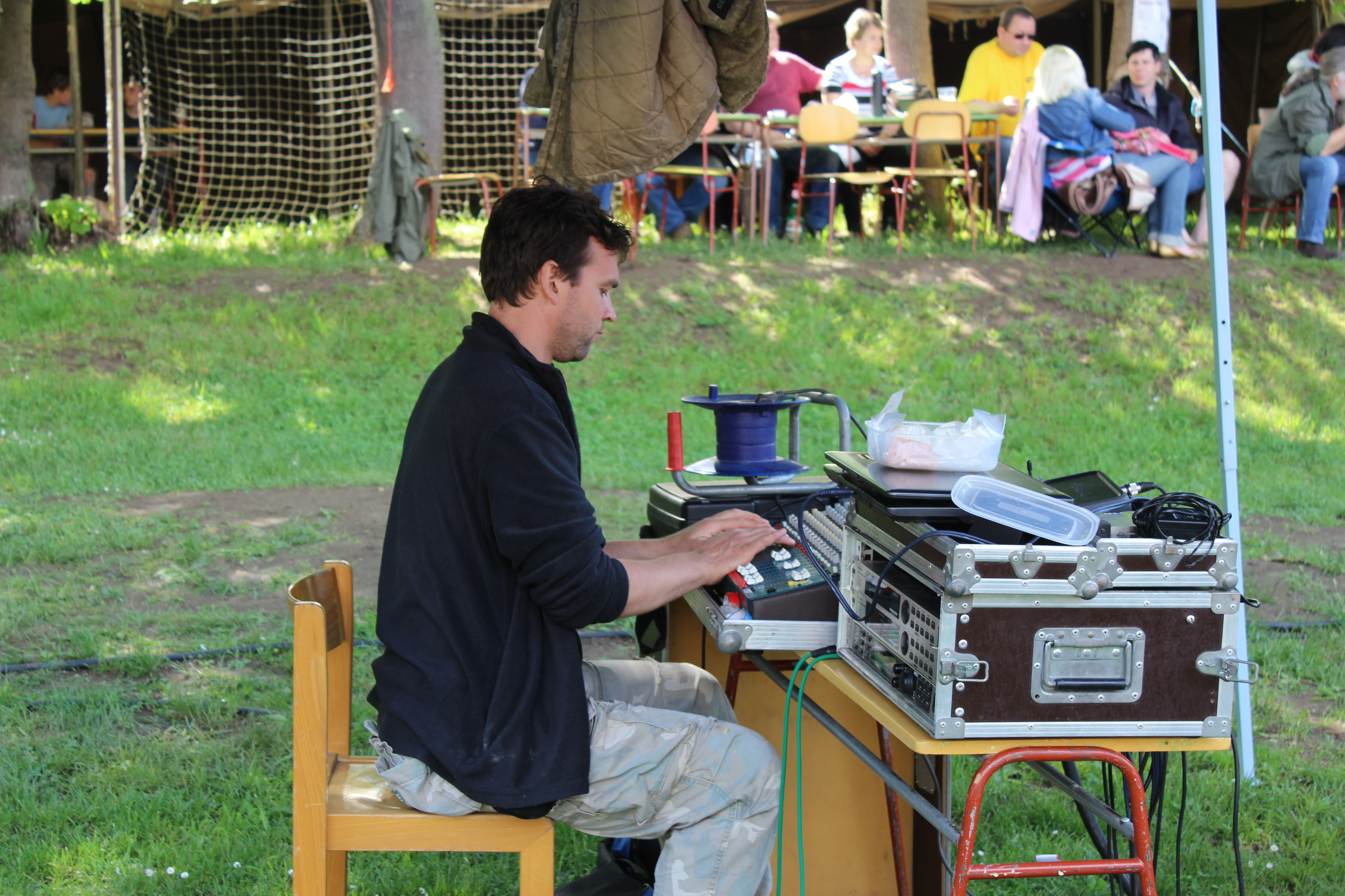 Liteňfest - Folk & Country Festival in Liteň (District Beroun)